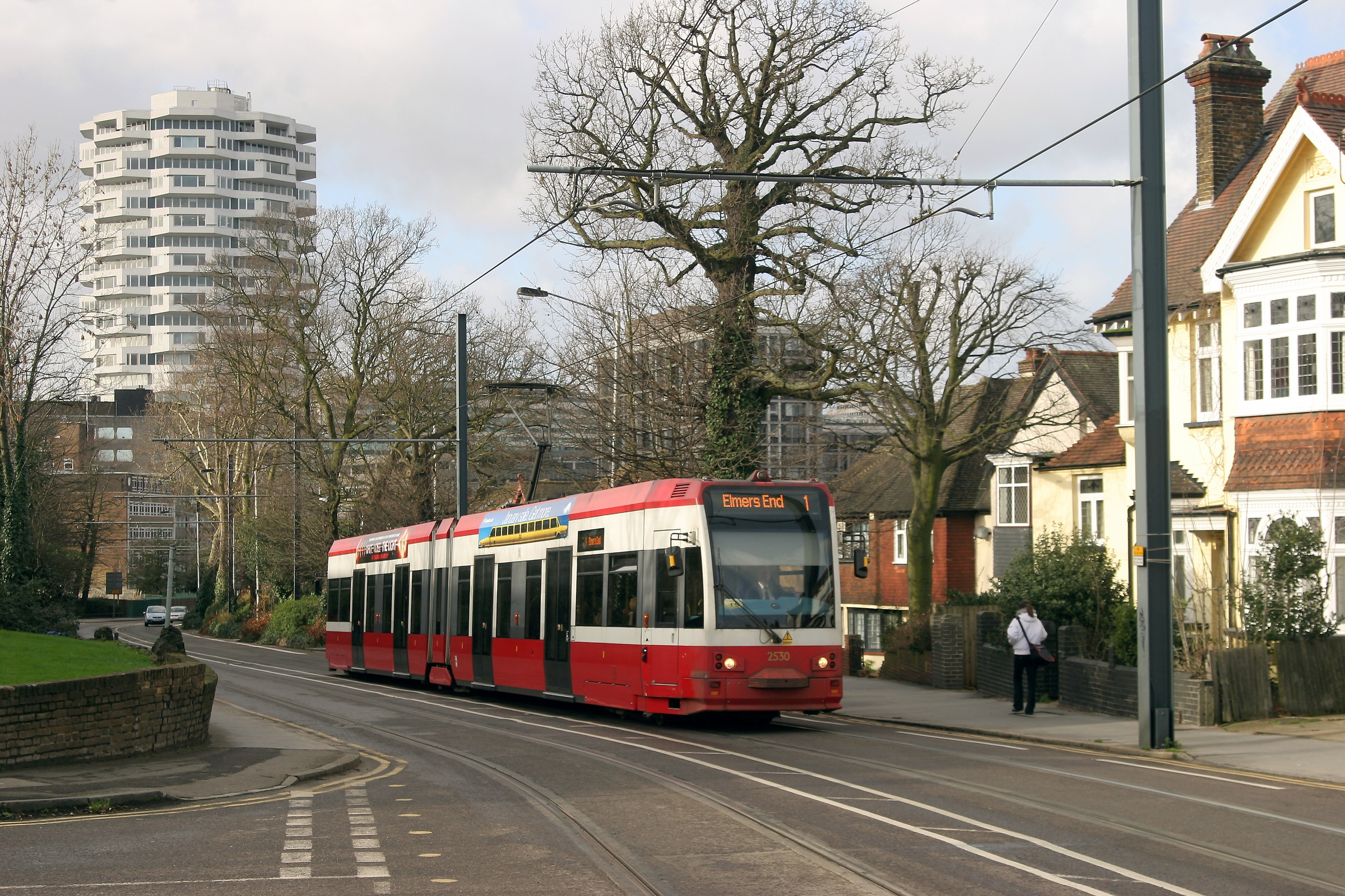 Author: Mark S Jobling